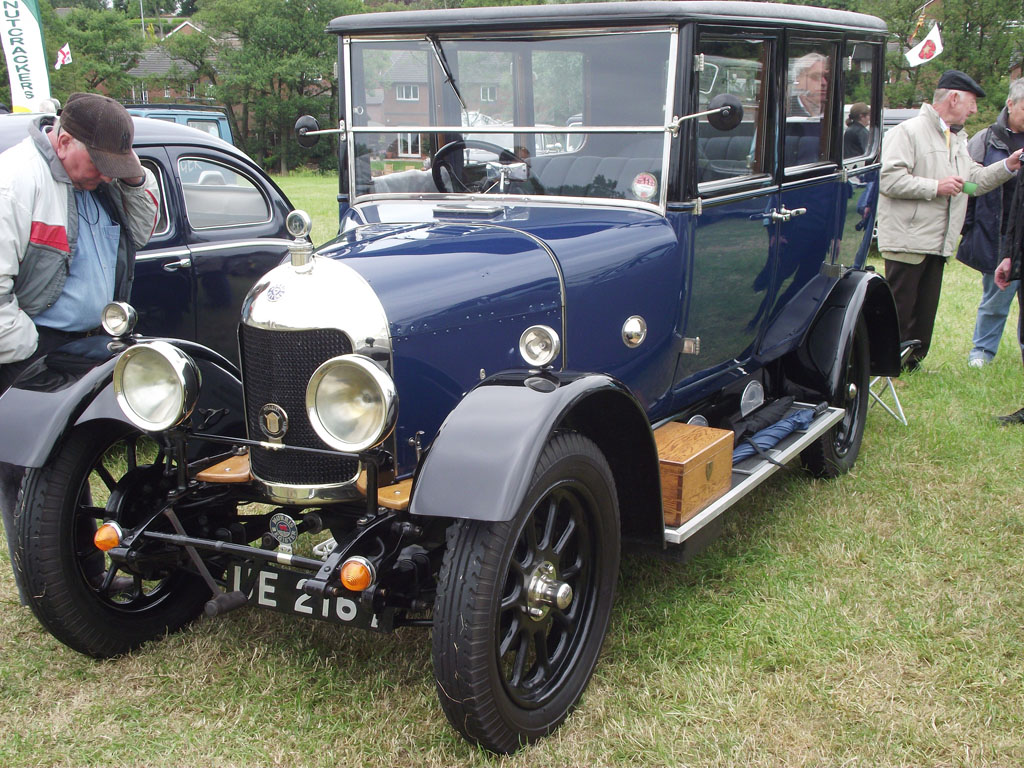 Morris Oxford Bullnose 1926(DVLA) first registered 2 August 1926, 1670 cc